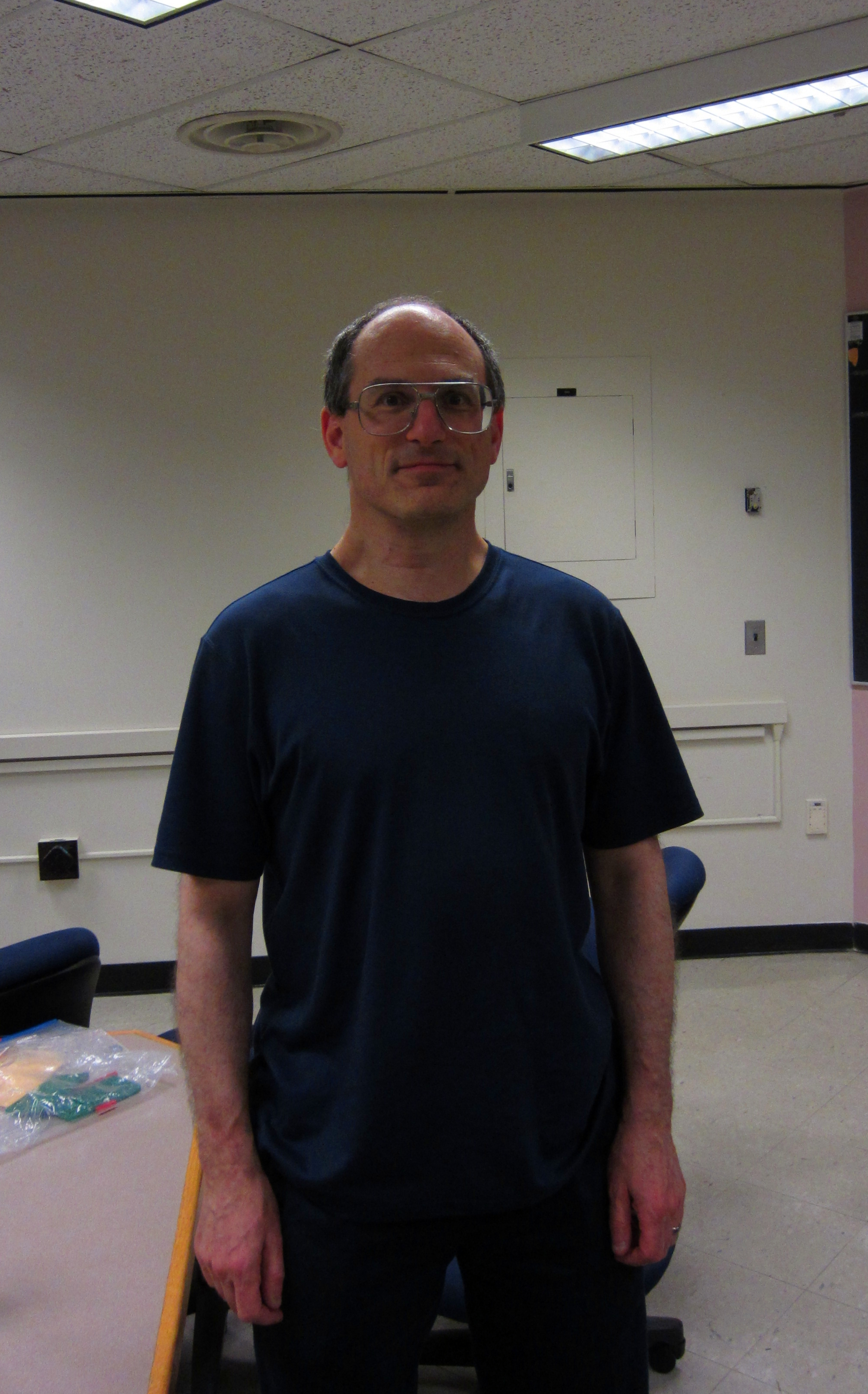 Jacob K. White, Cecil H. Green Professor of Electrical Engineering and Computer Science at the Massachusetts Institute of Technology